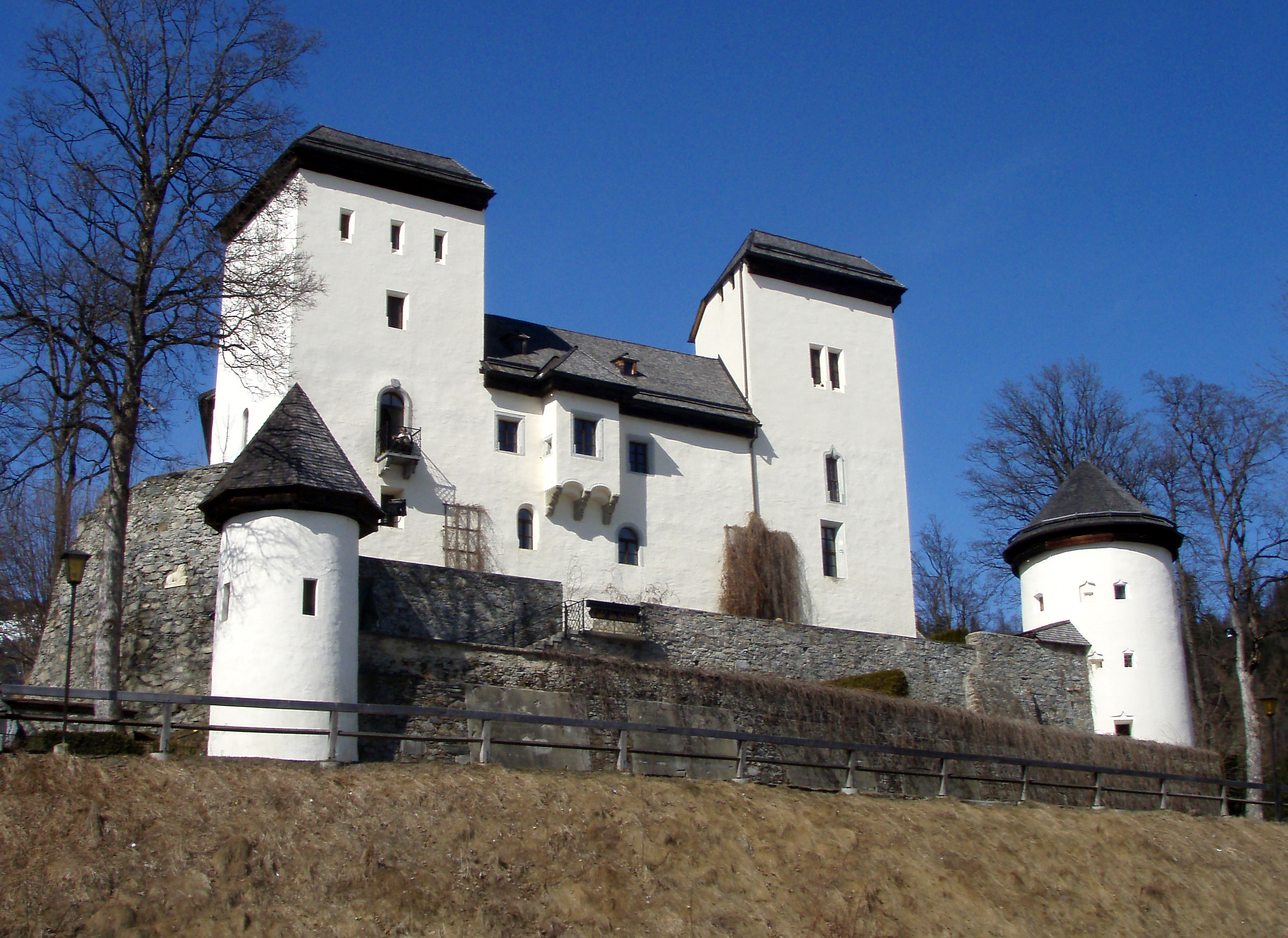 Goldegg Castle in Goldegg im Pongau, Salzburg (state), Austria Dieses Bild wurde anlässlich des österreichischen Tags des Denkmals 2014 in Salzburg eingereicht.